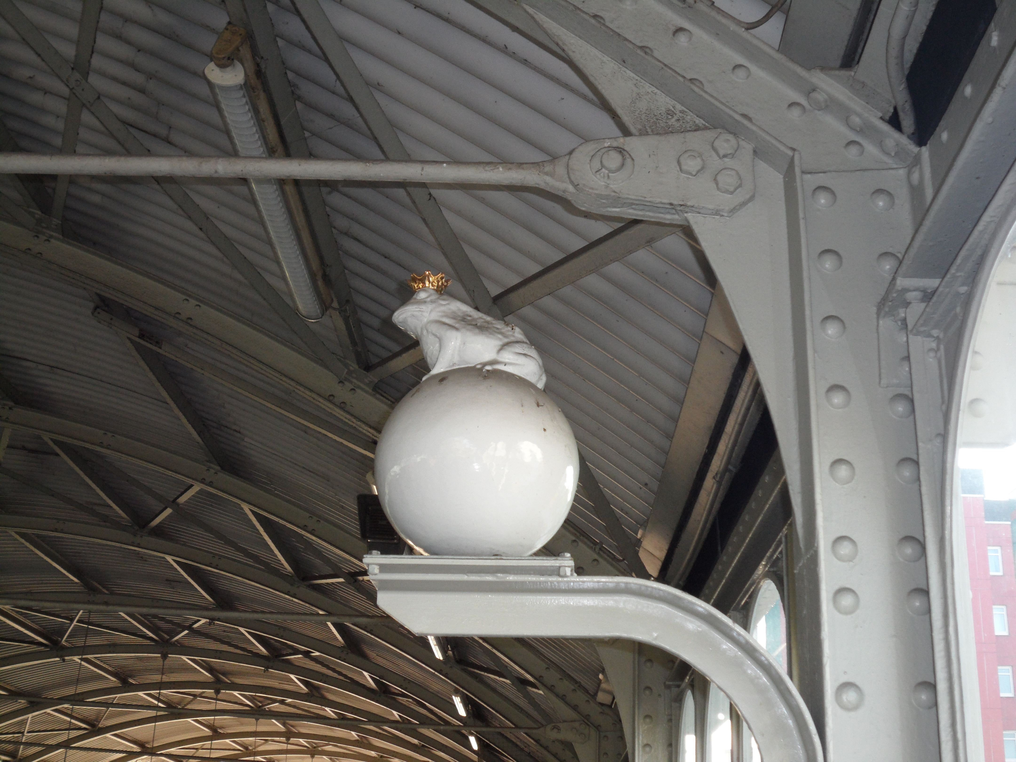 Porcelain frog over the northern platform on the subway station Prinzenstraße in Berlin